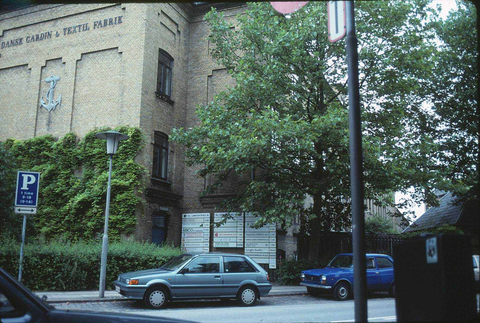 The Dansk Cardin and Textil Fabrik building, an old textile mill along the Mølleåen in Lyngby, Denmark, that has been converted to house offices and the like. A sign in front contains a directory that lists the different companies and organizations inside.